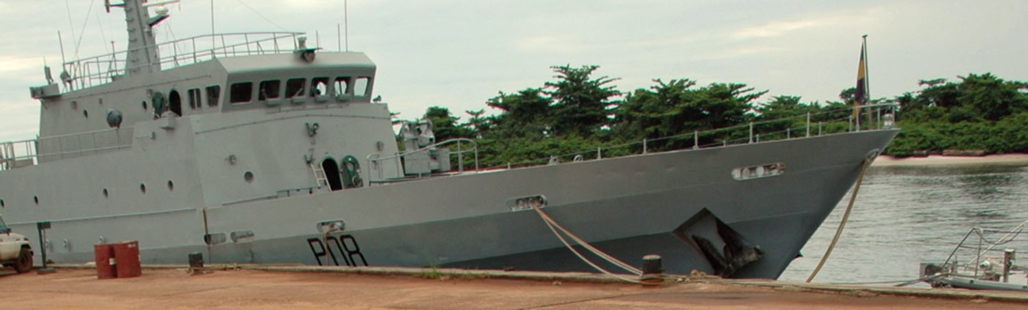 PORT GENTIL, Gabon (April 27, 2009) Gabonese sailors, front, reviews visit, board, search and seizure procedures during an Africa Partnership Station Nashville workshop with U.S. Coast Guard members. Africa Partnership Station is a multinational initiative developed by Commander, U.S. Naval Forces Europe and Commander, U.S. Naval Forces Africa to work with U.S. and international partners to enhance maritime safety and security on the African continent. (U.S. Navy photo by Mass Communication Specialist 2nd Class David Holmes/Released)